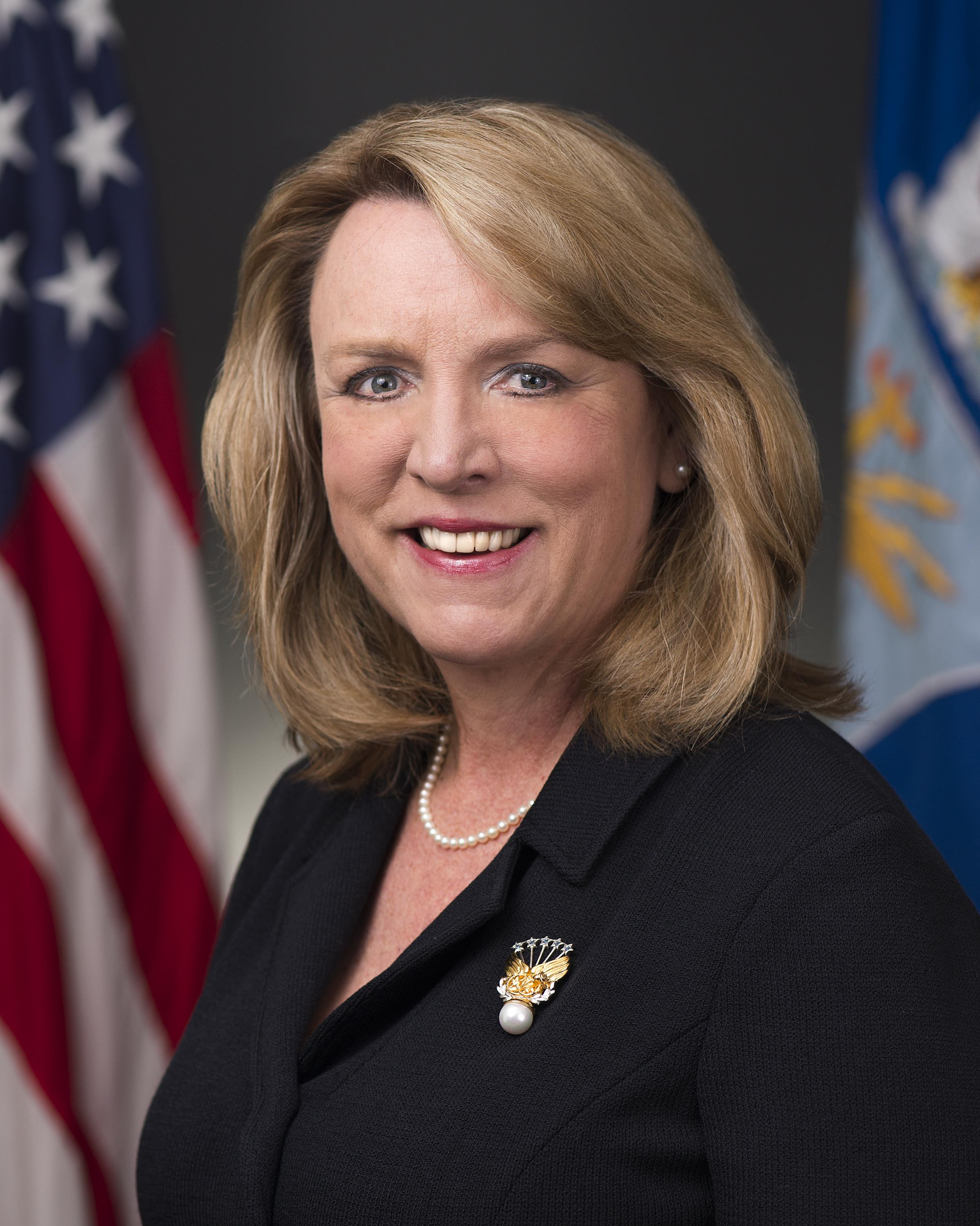 Official portrait of the 23rd United States Secretary of the Air Force, Deborah Lee James.